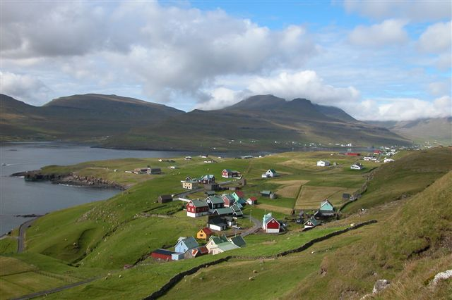 Froðba, The Faroese Islands.